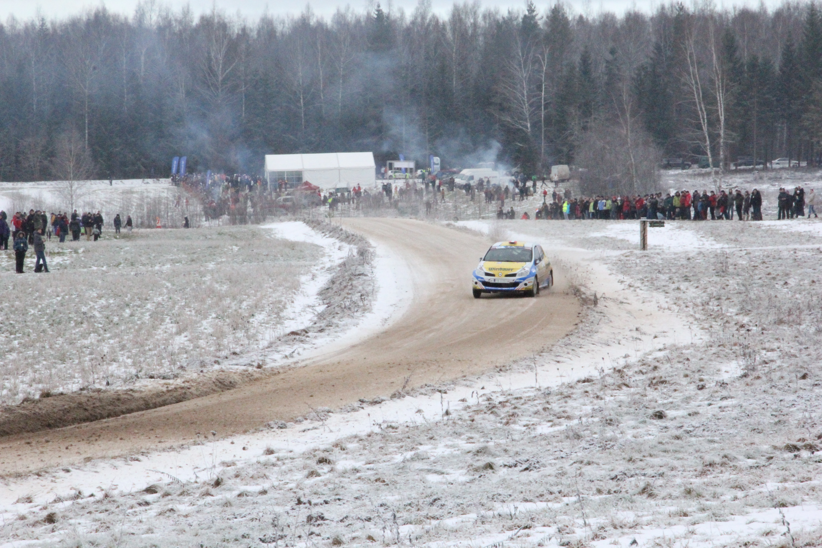 FIA Eiropas rallija čempionāts. FIA European Rally Championship.Latvia